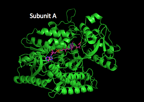 1l0v subunit A with FAD and succinate